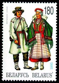 Motalski Stroj stamp